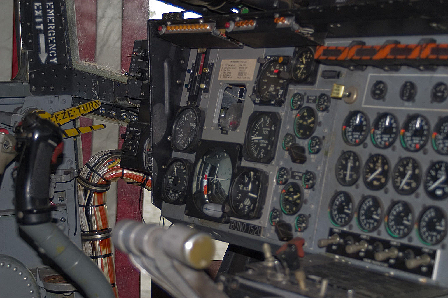 A photo of parts of the cockpit of the X-22 taken through the open right window. The photo is of an X-22 on static display inside the Niagara Aerospace Museum in Niagara Falls, N.Y. J.A.Ireland, BA (IHPST) 15:08, 26 October 2007 (UTC)